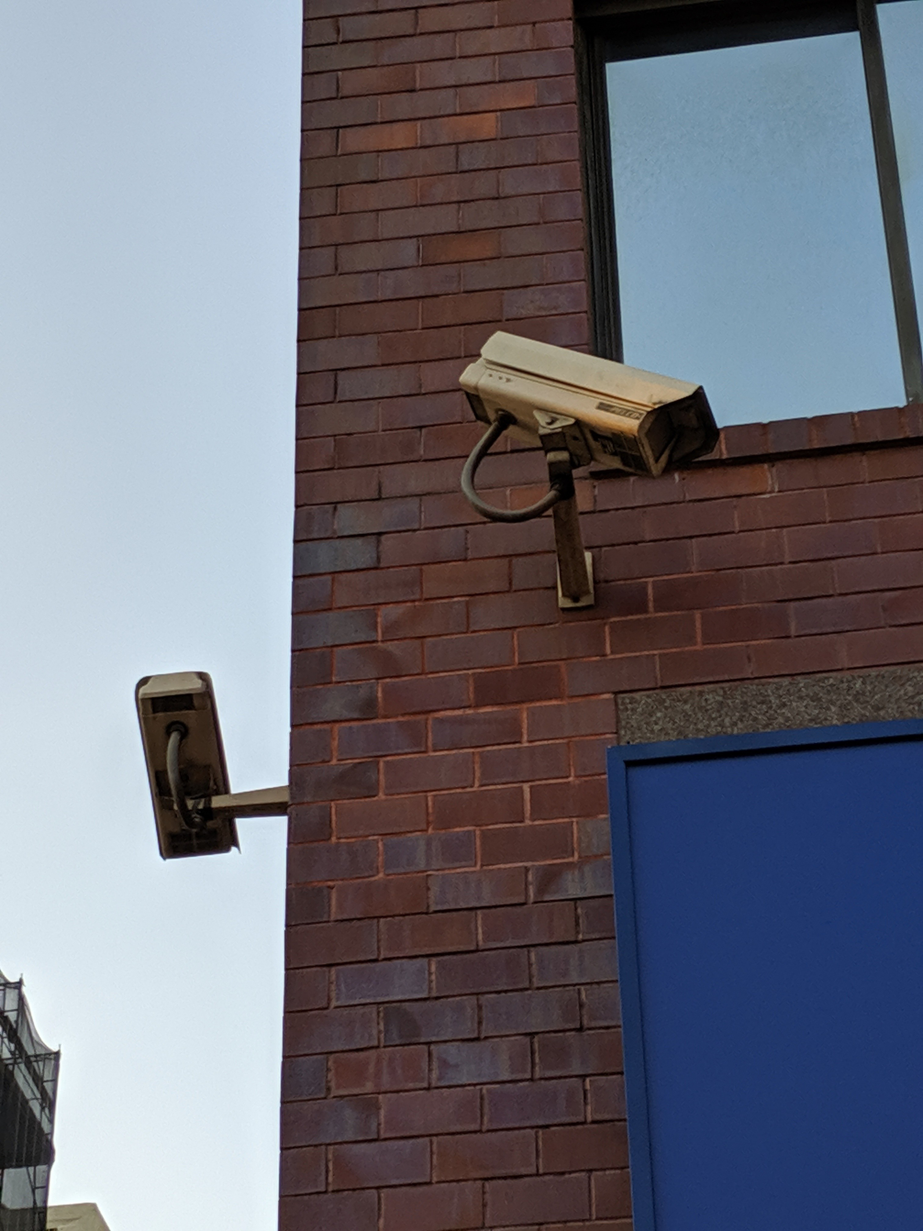 CCTV cameras mounted on a building in lower manhattan